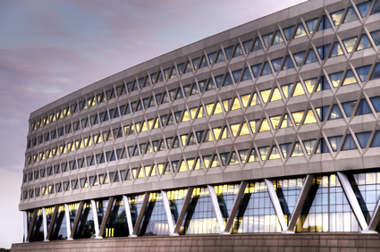 Located 12 miles southwest of Washington, D.C., the NGA Campus East (NCE) in Springfield, VA, is the largest vertical project under construction in the mid-Atlantic region featuring a main office building.